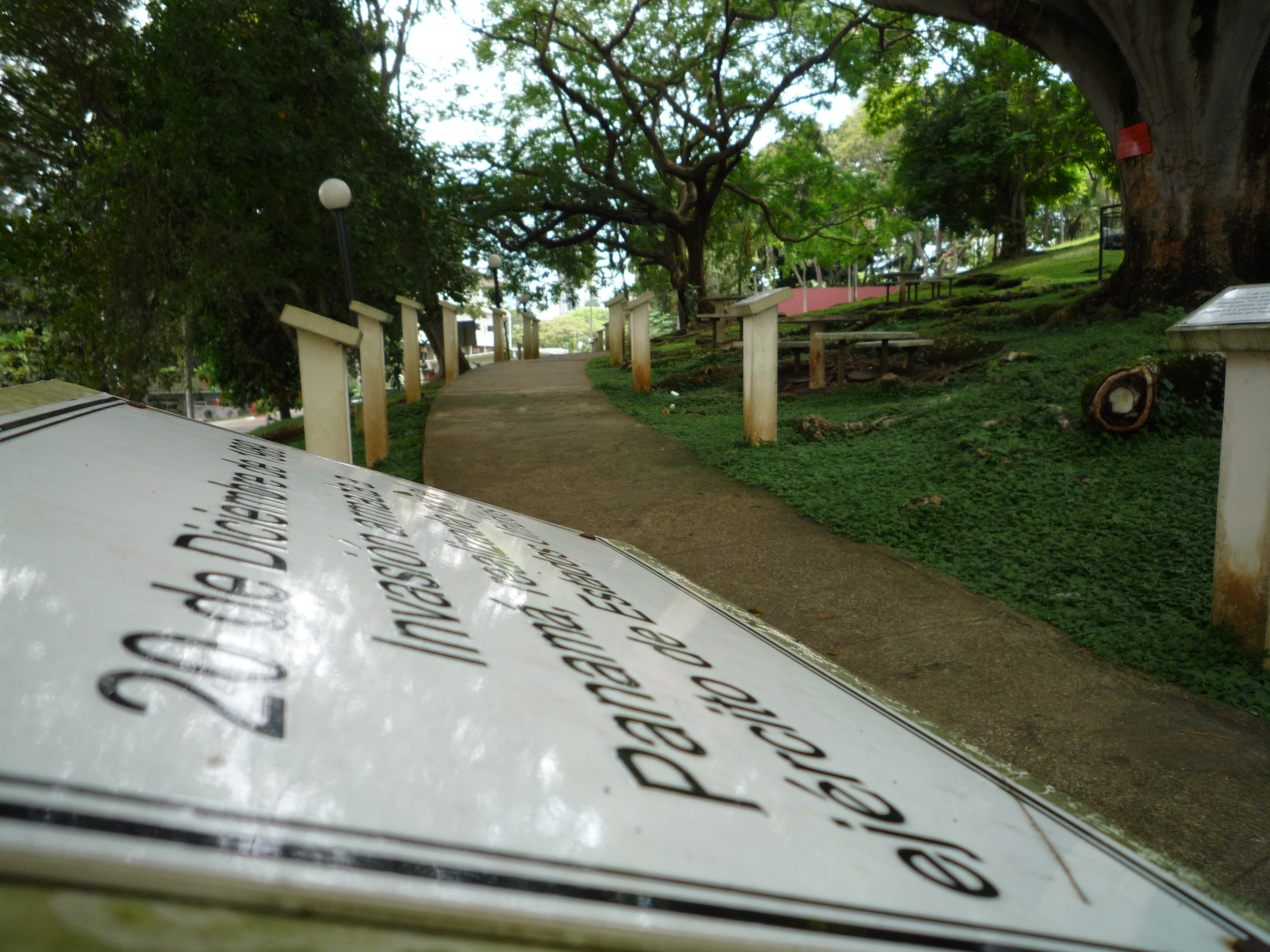 one of several roads in the city uiversitaria.